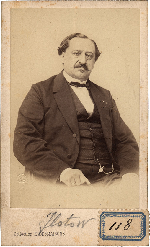 Portrait of Friedrich Adolf Ferdinand von Flotow, composer (1812-1883). Photo by E. Desmaisons, Parigi, before 1883.